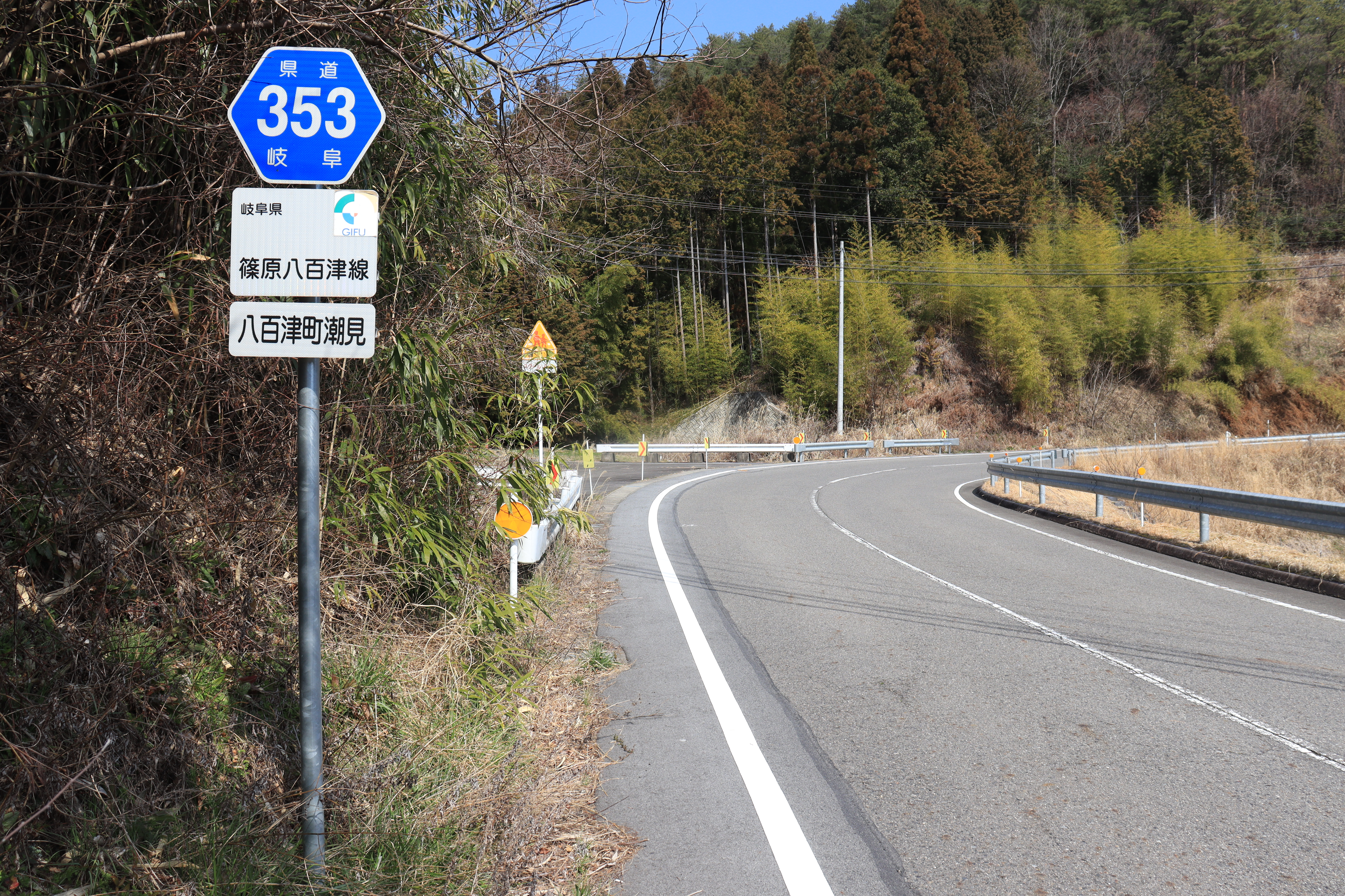 Gifu Prefectural Road Route 353 in Shiomi, Yaotsu, Gifu Prefecture, Japan.